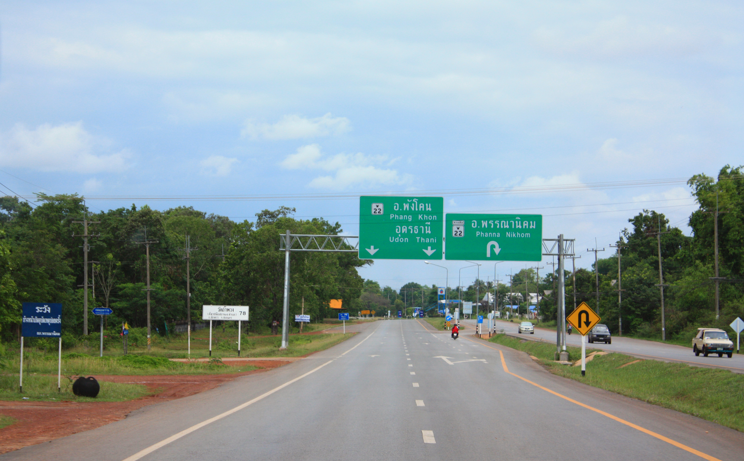 Highway 22 at Amphoe Phanna Nikhom, Sakhon Nakhon Province